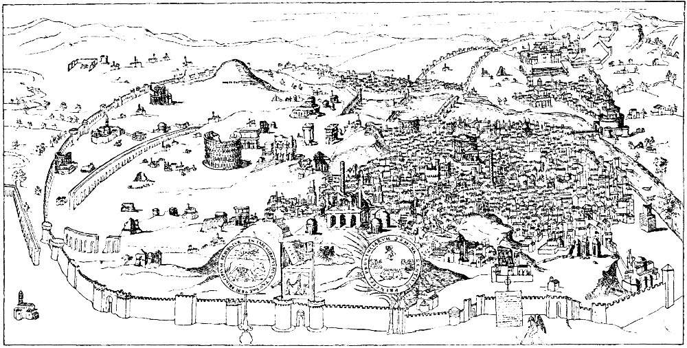 Panoramic view of Rome from the 15th century.